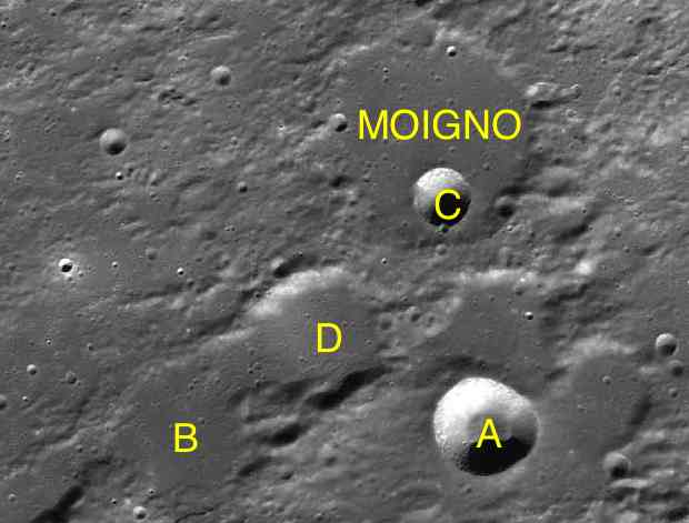 Part of the chart LAC-4 used for the presentation